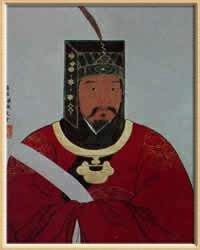 Portrait of Liang Kejia